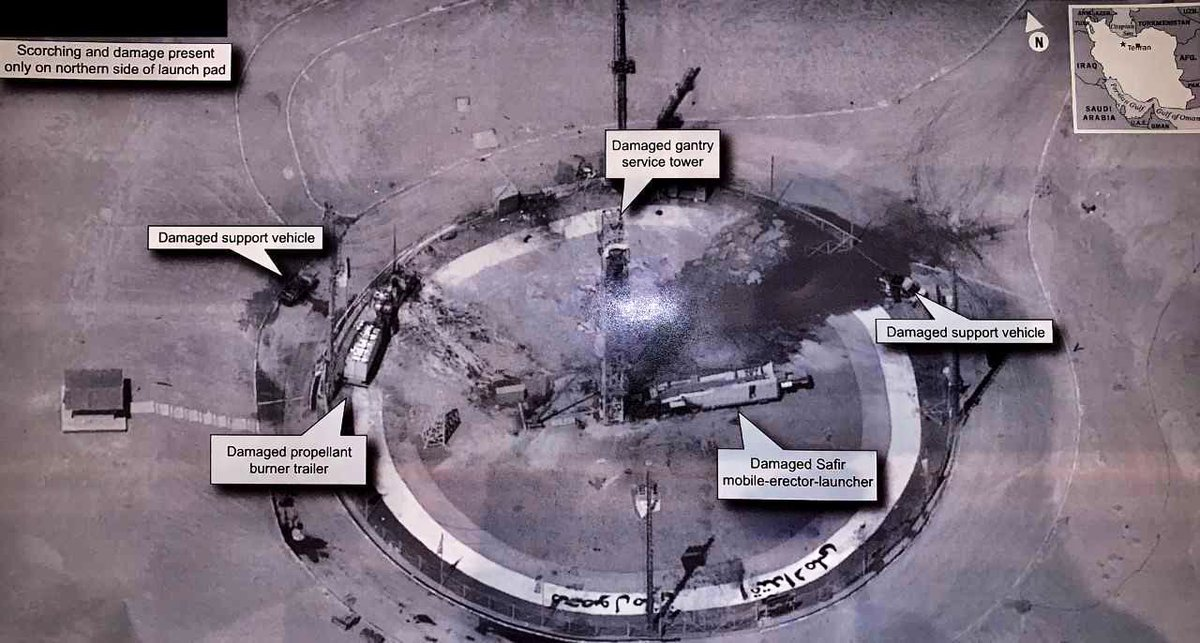 Aerial view of launch pad at Imam Khomeini Spaceport, Iran, after rocket explosion of August 29, 2019